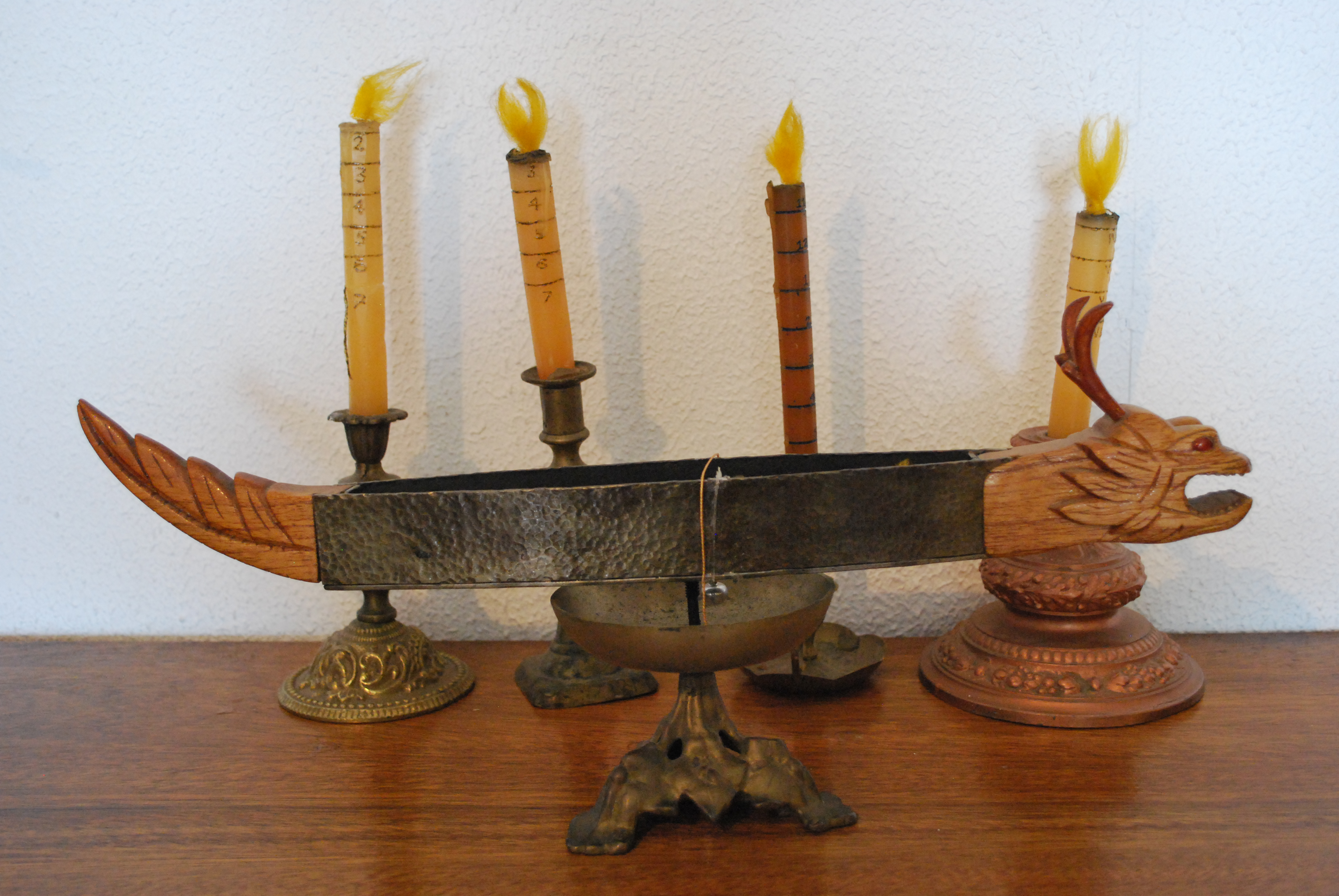 Candle clock on display at the Clock Museum in Zacatlán, Puebla, Mexico